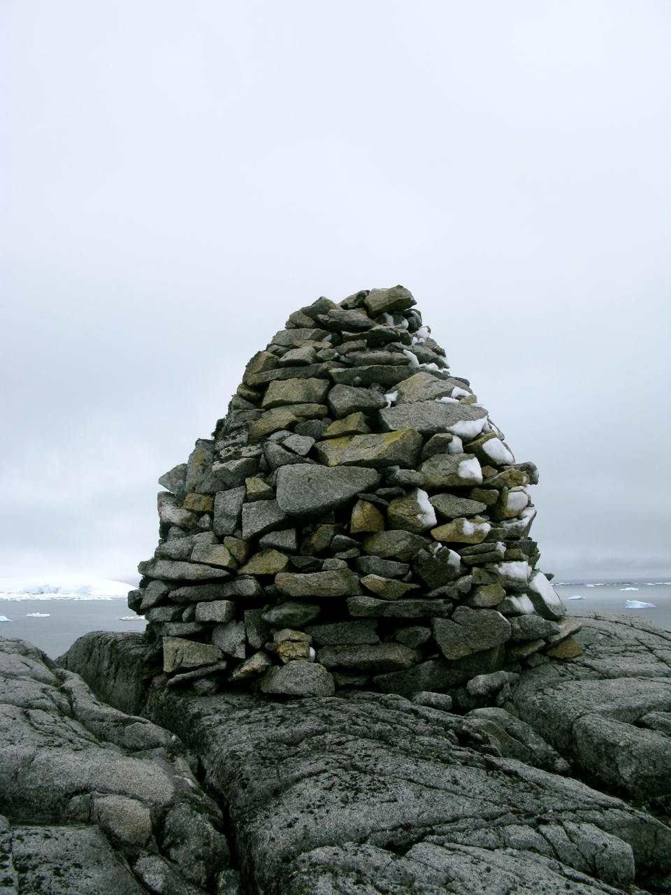 Rock cairn at Port Charcot, Booth Island, with wooden pillar and plaque inscribed with the names of the first French expedition led by Jean-Baptiste E. A. Charcot which wintered here in 1904 aboard Le Français. Located in the Antarctic:- 65°03′00″S 64°01′00″W